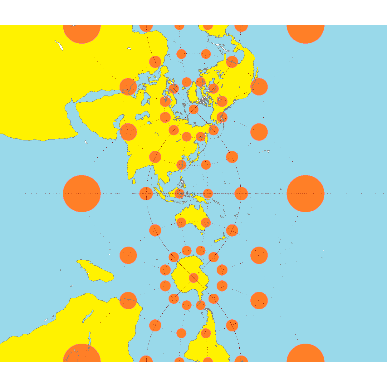 Transverse Mercator projection of standard meridian 135E-45W with Tissot's indicatrix. Greenland, Australia and Antarctic are on the standard meridian, so you can compare these sizes, concurrently with conformality.